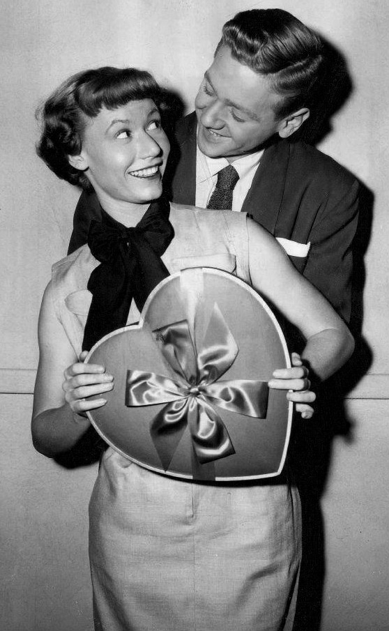 Photo of Beverly Wills and Tom Peters from the television program I Married Joan. Wills, who was the daughter of star Joan Davis in real life, played the role of her younger sister in the show.